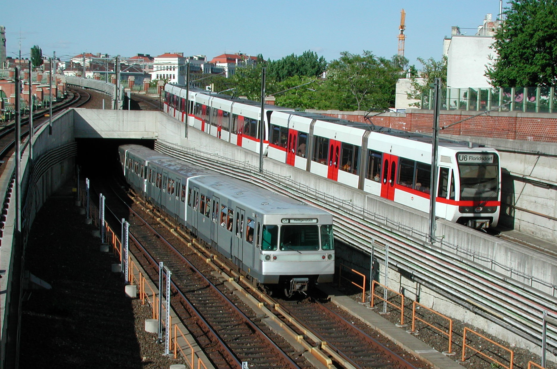 Trains of both metro systems in Vienna leaving Längenfeldgasse station: standard metro train on U4 with third rail und a train constisting of T-cars on the overhead catenary powered U6